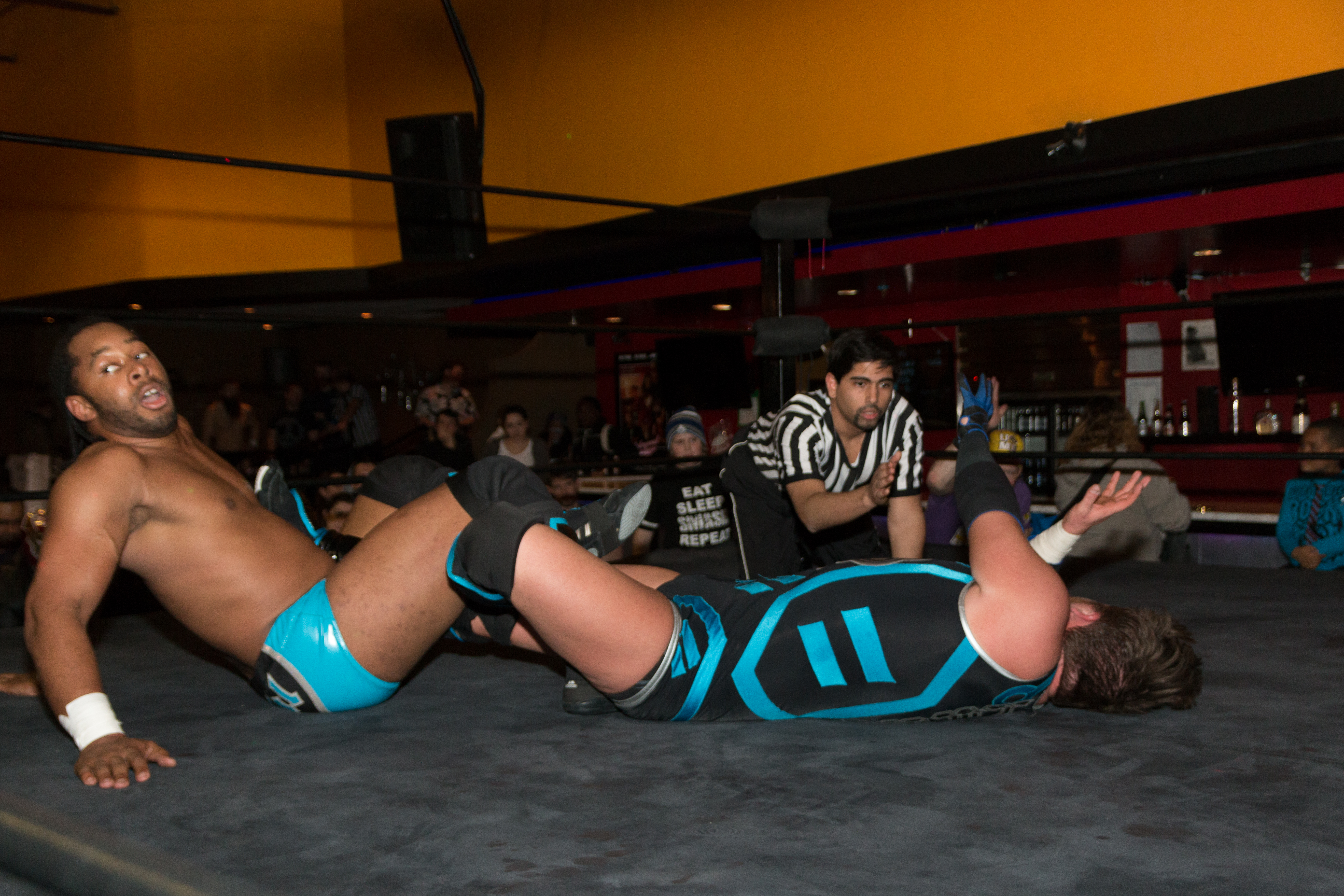 Jay Lethal (left) applying a figure four leglock to Scotty O'Shea